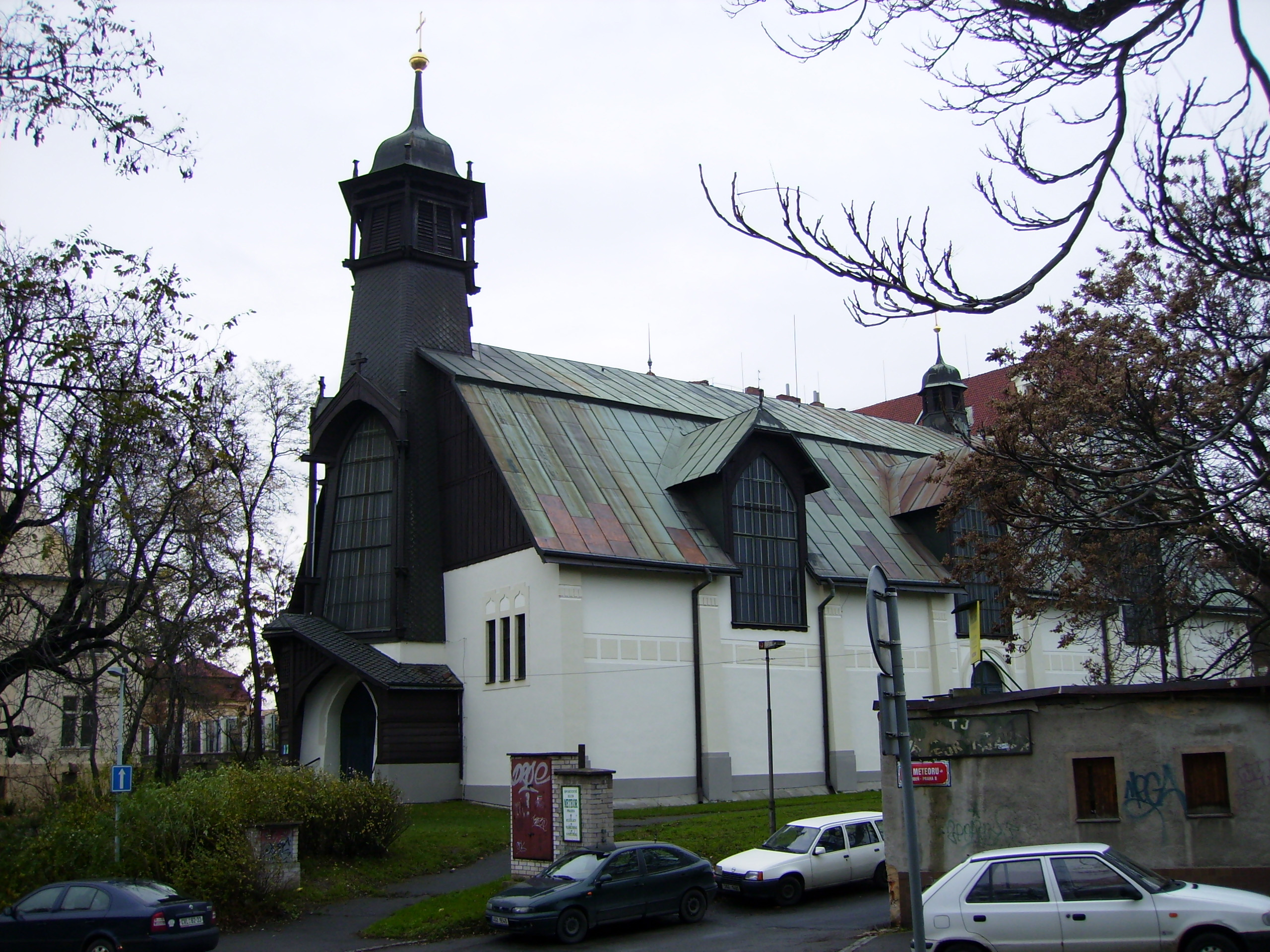 St Adalbert of Prague church in Prague-Libeň, Czech Republic